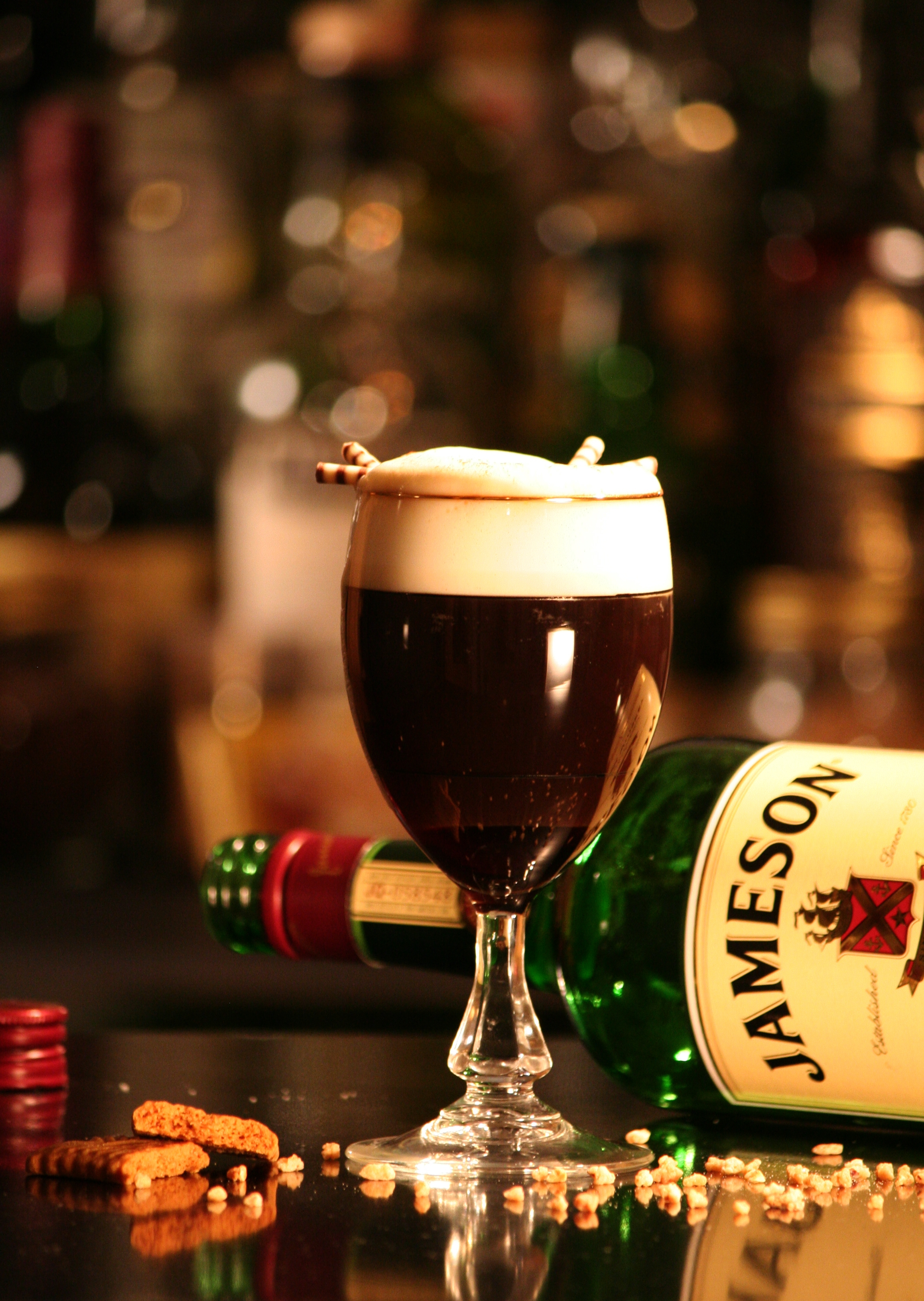 Irish Coffee topped with lightly whipped cream. Built in a special glass for better mixing.